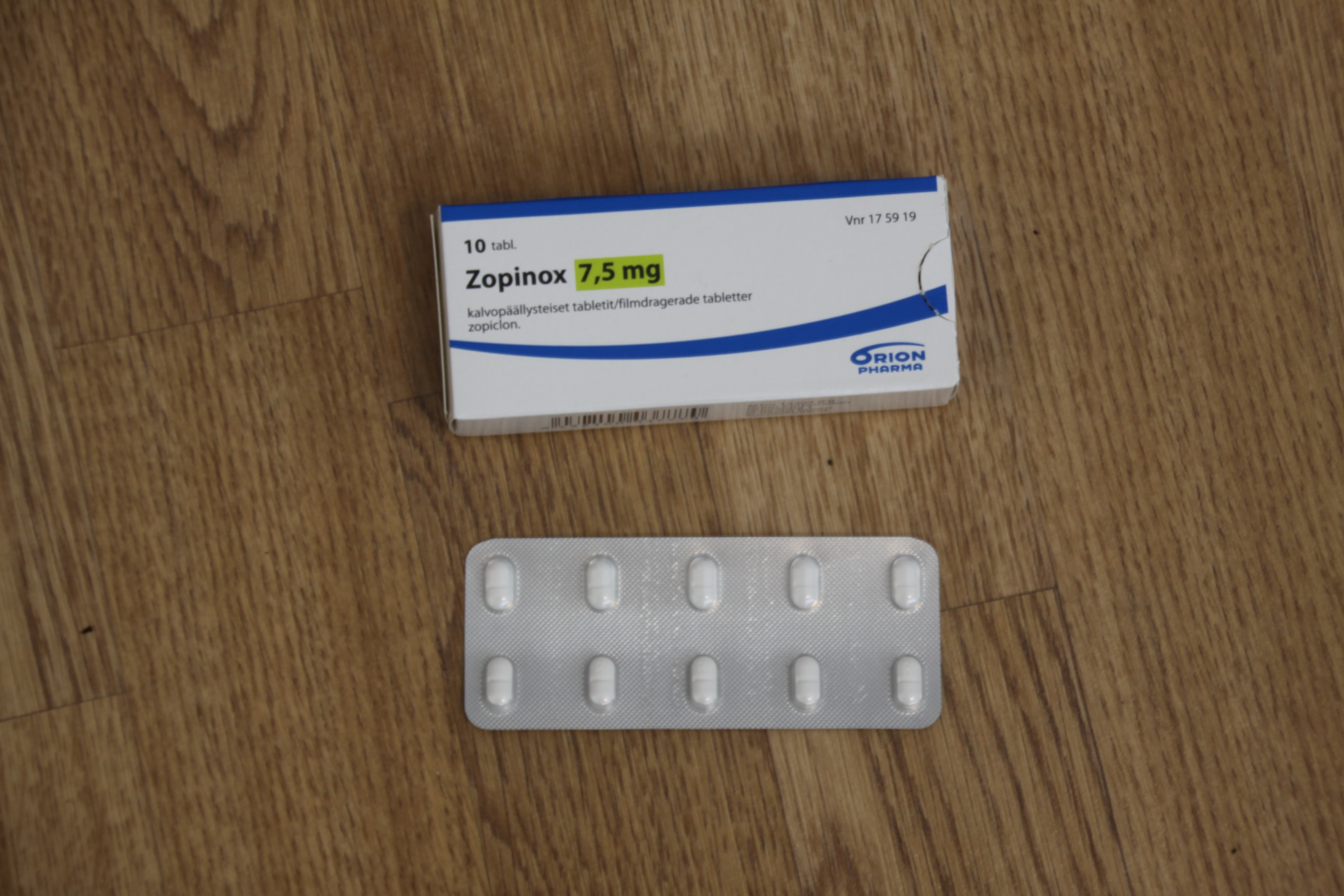 Zopinox 7,5mg, a finnish zopiclone product.